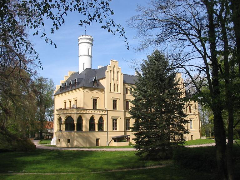 Castle Kropstädt, built around 1850 on the place of the former water castle Liesnitz, built in 1150. The community Kropstädt, district Wittenberg, state Saxony-Anhalt, Germany, is situated in the Nature park Fläming.